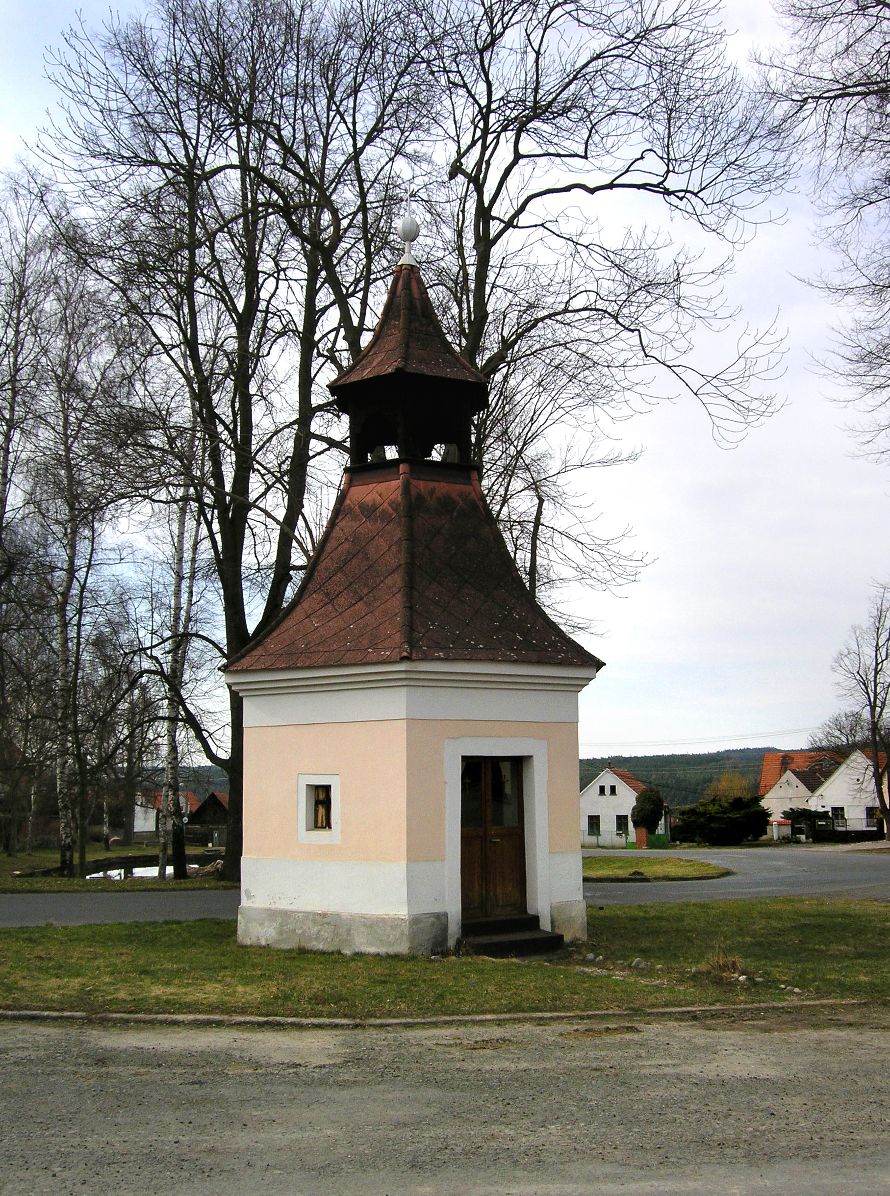 Chapel in Česká Bříza, Czech Republic